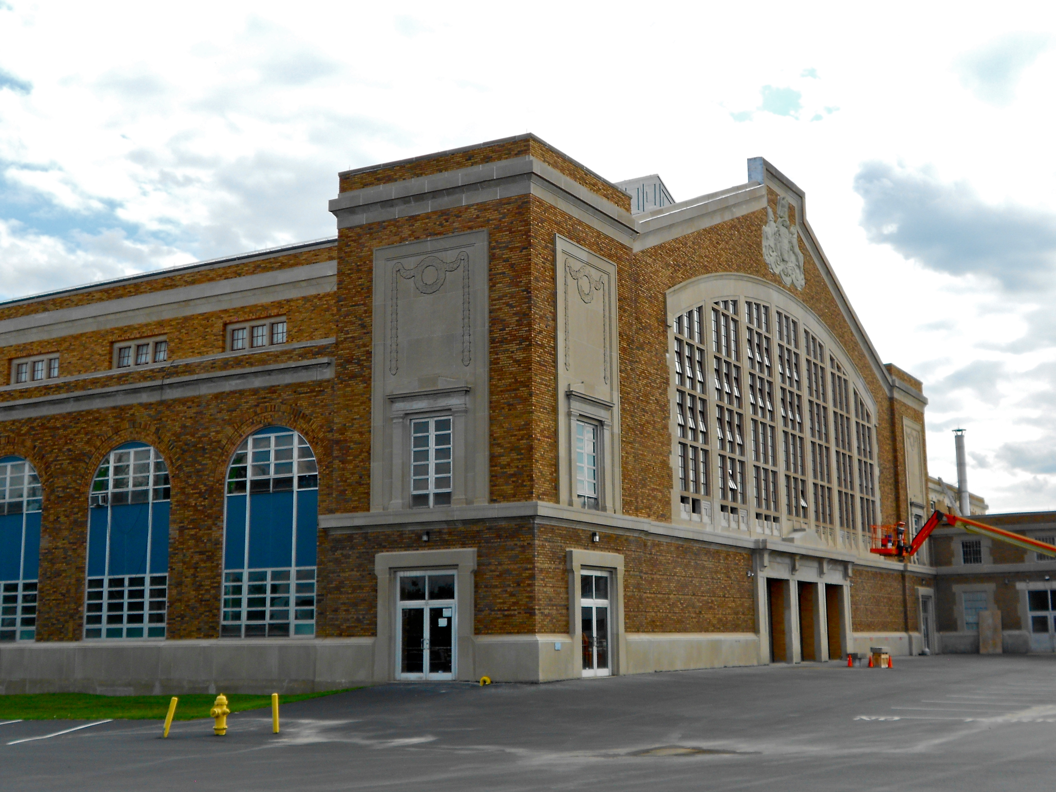 Kingston Armory, on the NRHP since December 21, 1989, at 280 Market Street, Kingston, Luzerne County, Pennsylvania.